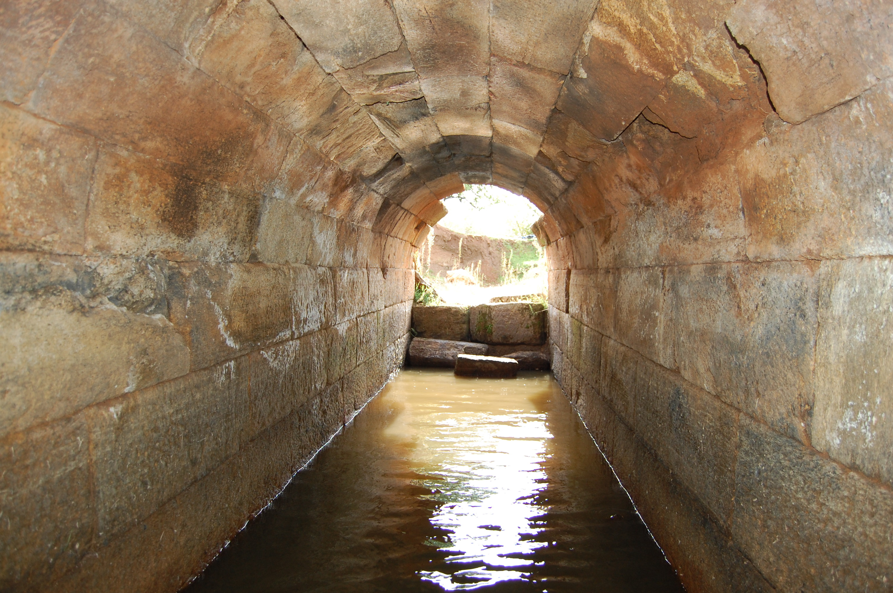 Ancient Macedonian tomb near Bonče, Prilep region, Macedonia